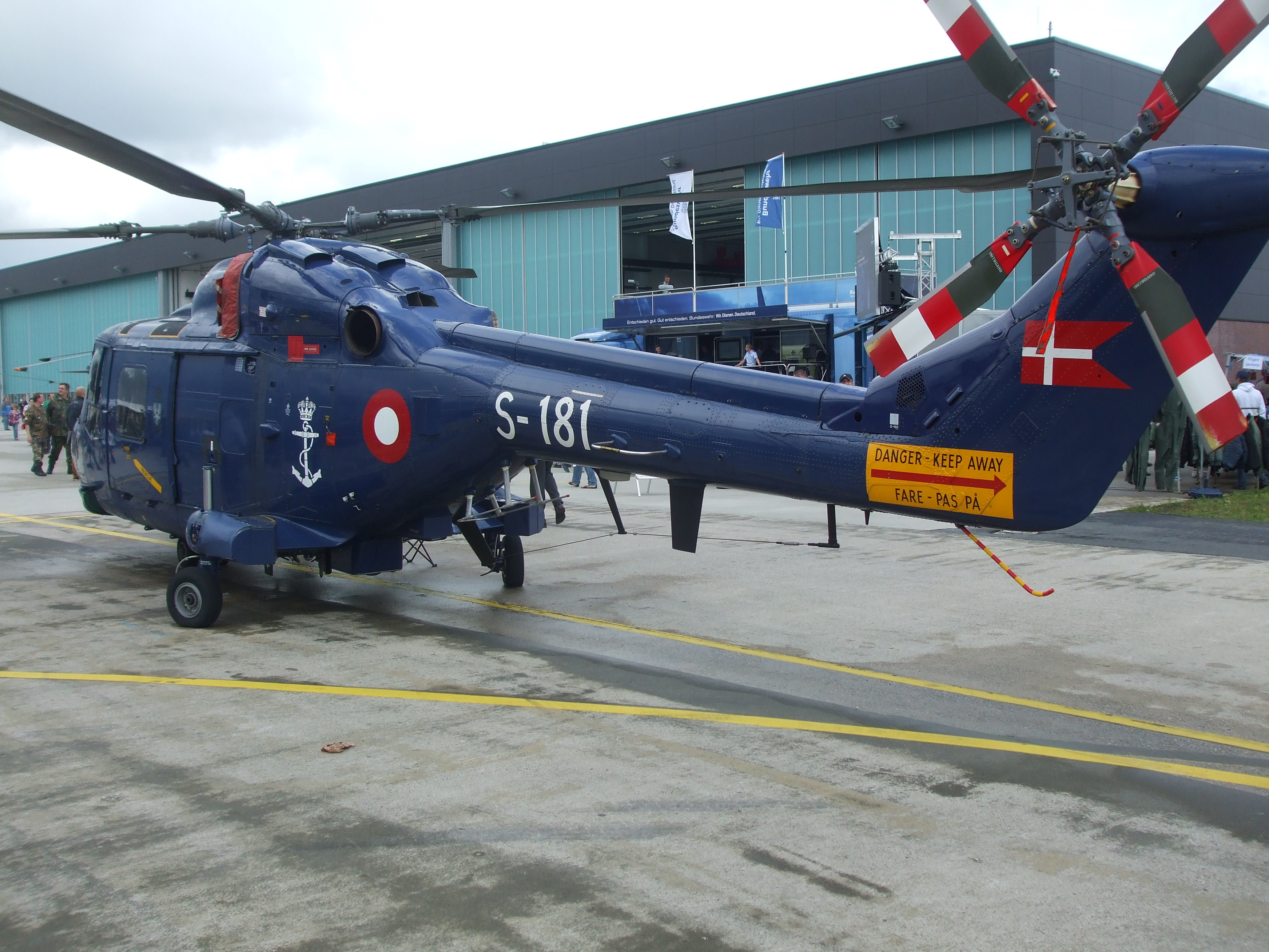 Denmark sent its Lynx S-181 to the 100th anniverersary air show of Germany's Marineflieger.